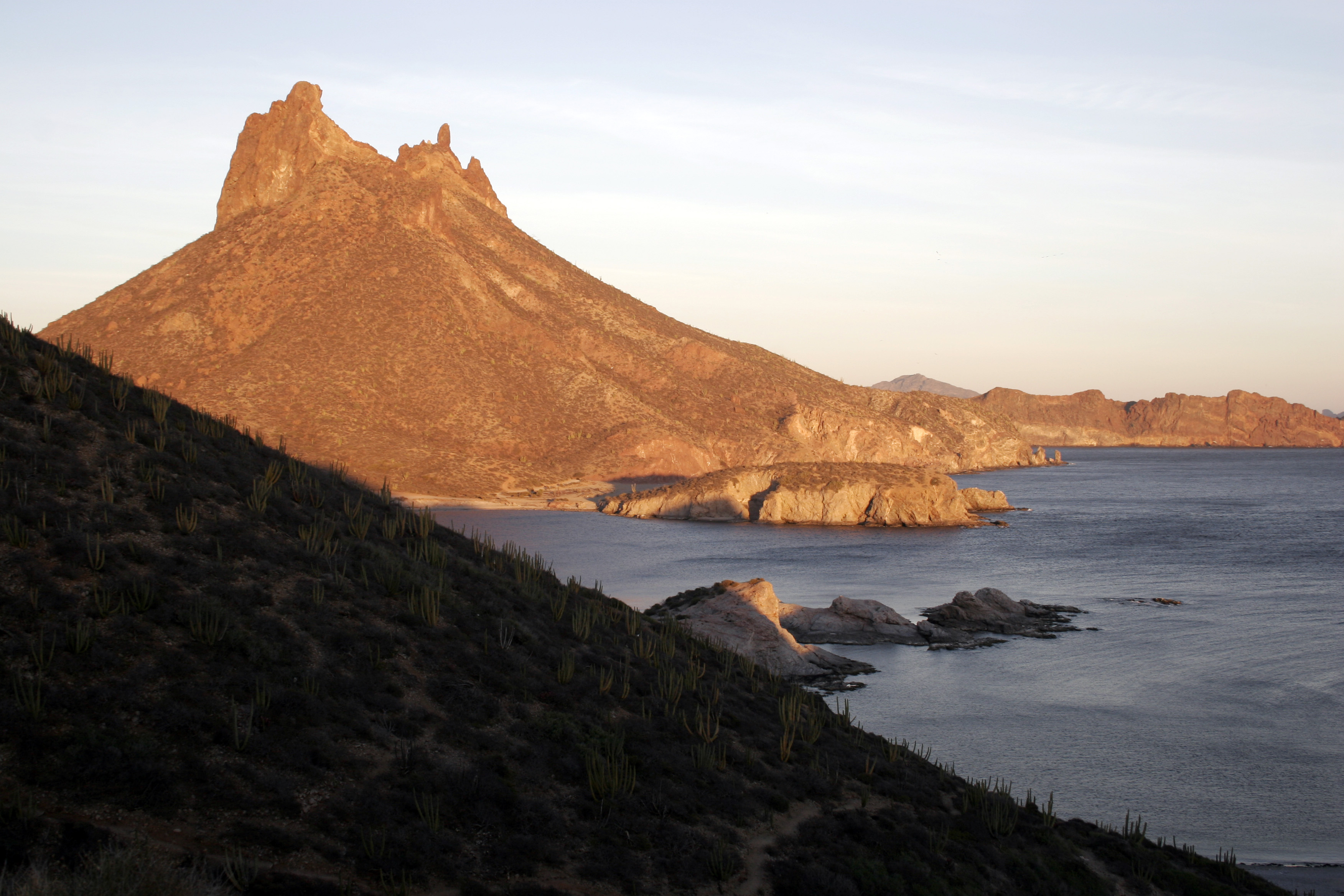 A sunset in San Carlos, Sonora. San Carlos is on the Mexican west coast in the Sea of Cortes (Gulf of California). It is mainly a community for retired Americans. Lovely place.